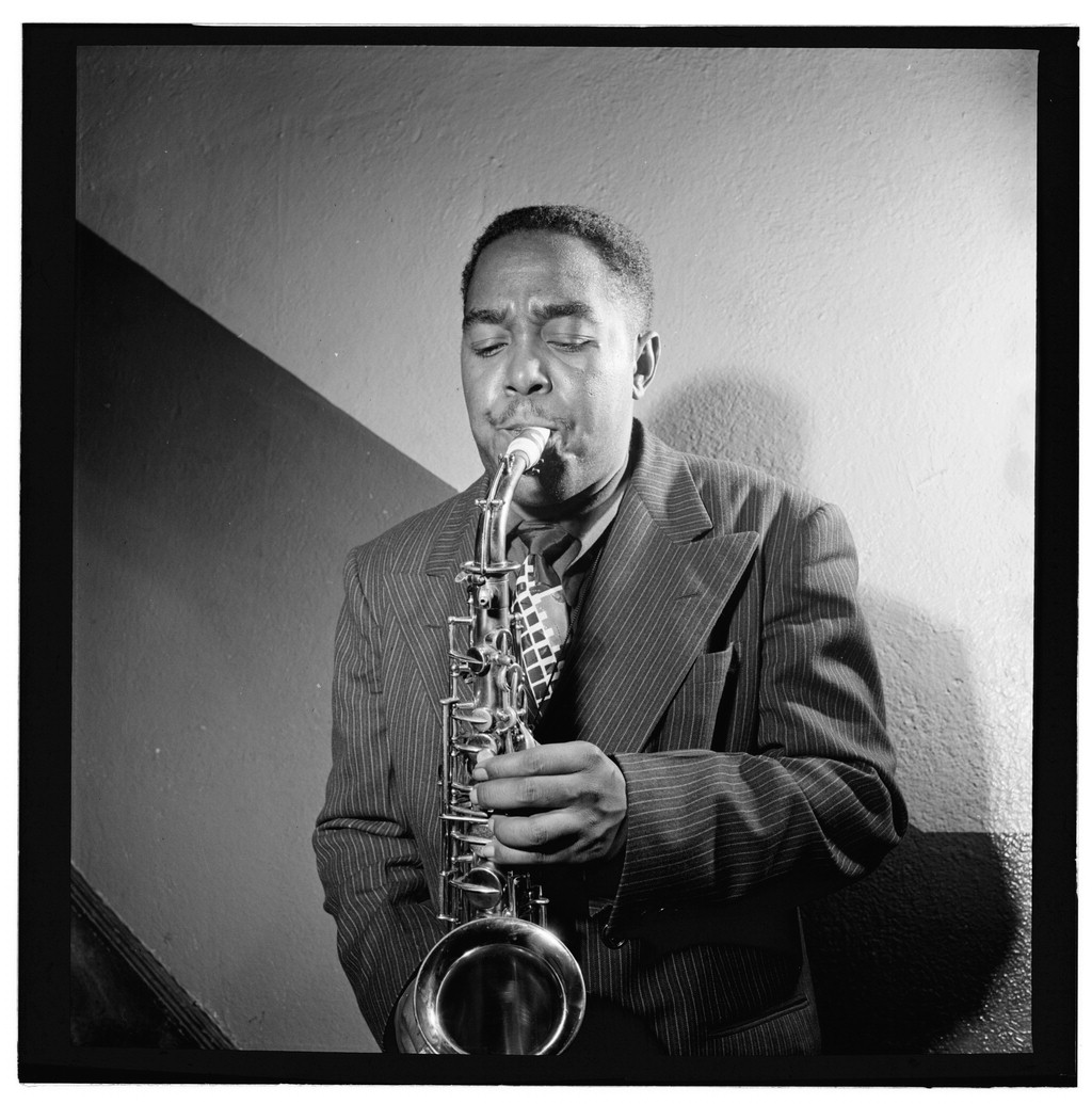 Gottlieb, William P., 1917-, photographer. [Portrait of Charlie Parker, Carnegie Hall, New York, N.Y., ca. 1947] 1 negative : b&w ; 2 1/4 x 2 1/4 in. Notes: Gottlieb Collection Assignment No. 436 Reference print available in Music Division, Library of Congress. Purchase William P. Gottlieb Forms part of: William P. Gottlieb Collection (Library of Congress). Subjects: Parker, Charlie, 1920-1955 Jazz musicians--1940-1950. Saxophonists--1940-1950. Carnegie Hall Format: Portrait photographs--1940-1950. Film negatives--1940-1950. Rights Info: Mr. Gottlieb has dedicated these works to the public domain, but rights of privacy and publicity may apply. Repository: (negative) Library of Congress, Prints & Photographs Division, Washington D.C. 20540 USA, (reference print) Library of Congress, Music Division, Washington D.C. 20540 USA, Part Of: William P. Gottlieb Collection (DLC) 99-401005 General information about the Gottlieb Collection is available at Persistent URL: Call Number: LC-GLB23- 0691 This work is from the William P. Gottlieb collection at the Library of Congress. Rights and restrictions.In accordance with the wishes of William Gottlieb, the photographs in this collection entered into the public domain on February 16, 2010.